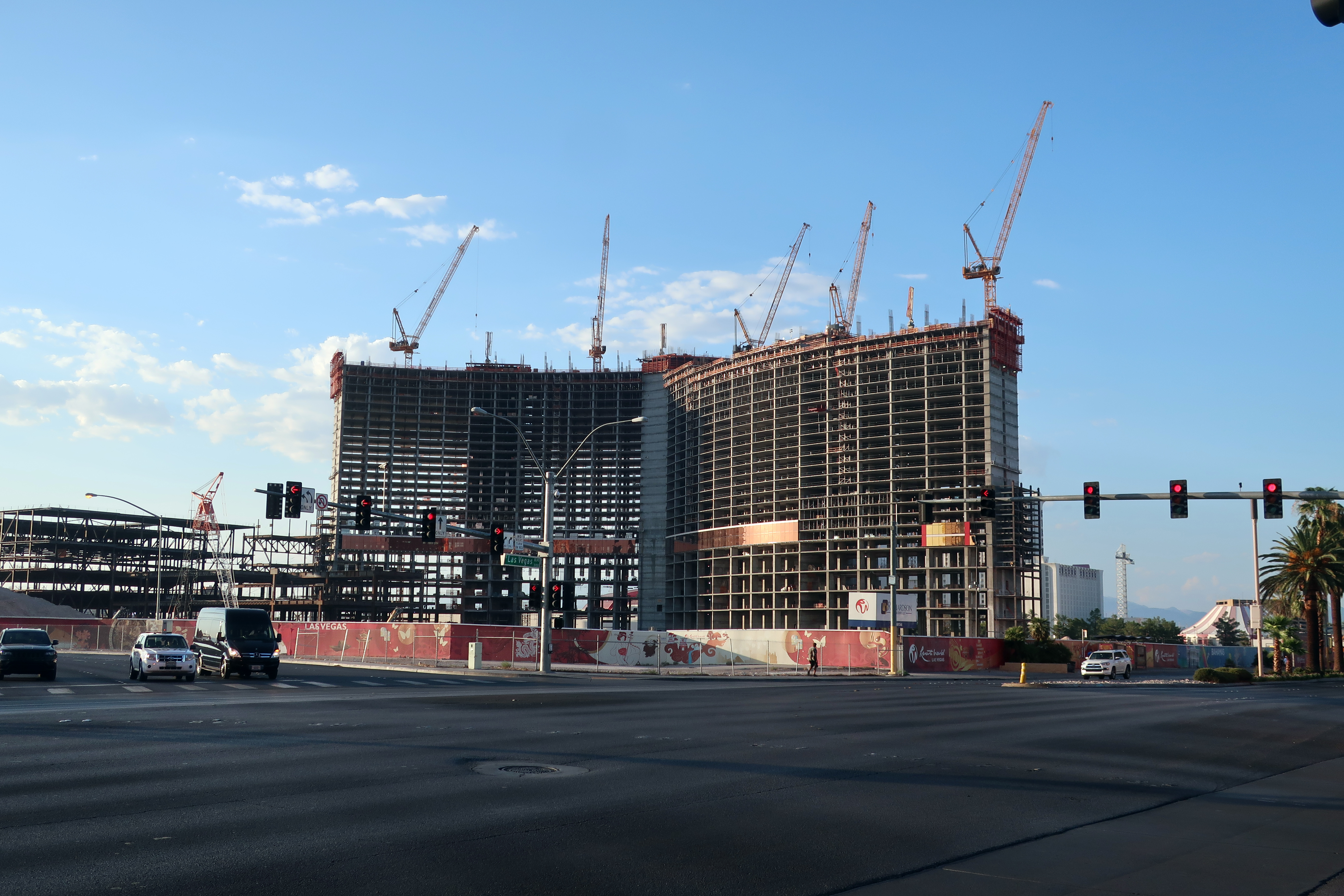 Resorts World Las Vegas, under construction on the Las Vegas Strip.